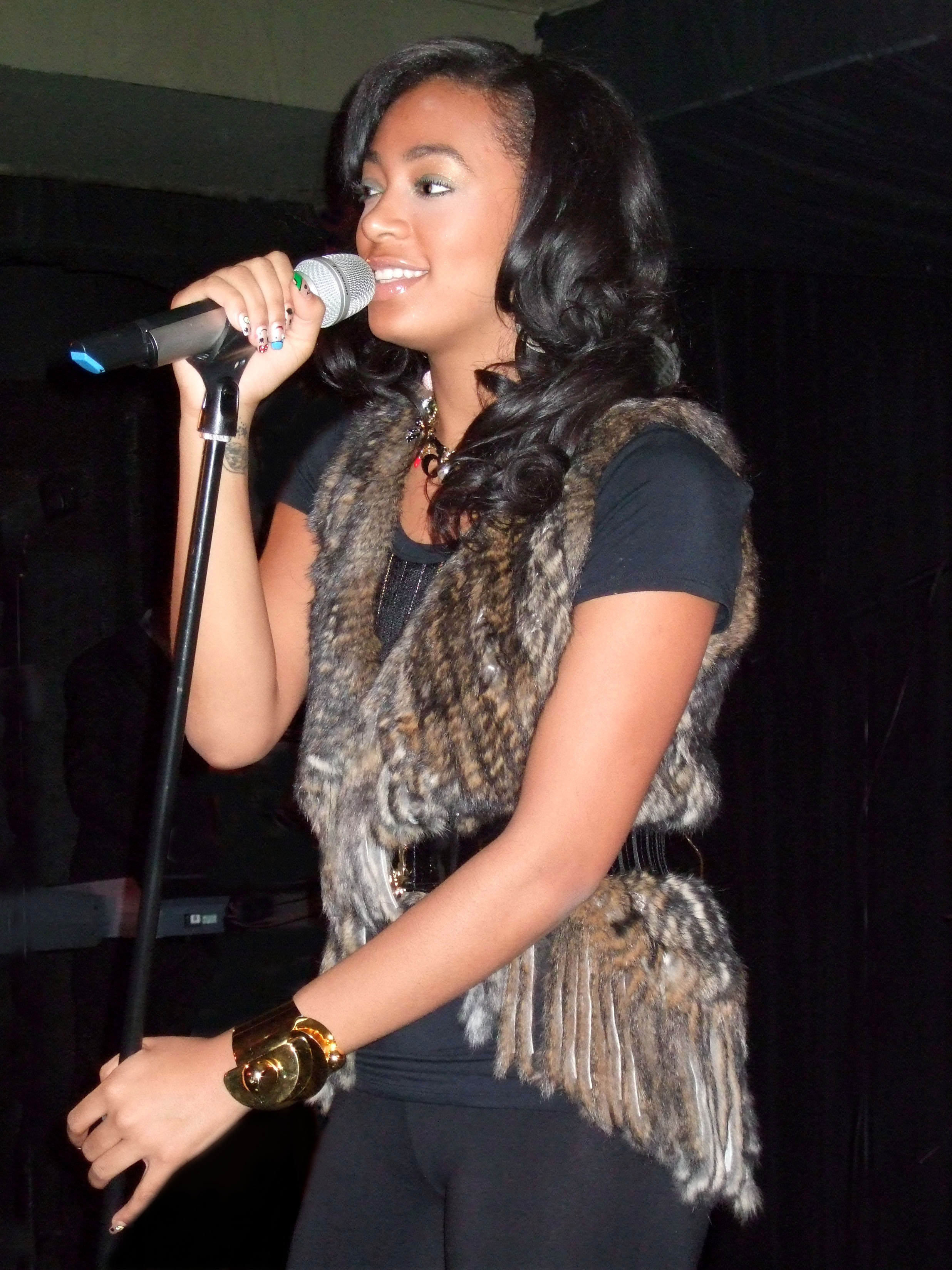 Solange Knowles at the Ruby Lounge in Manchester